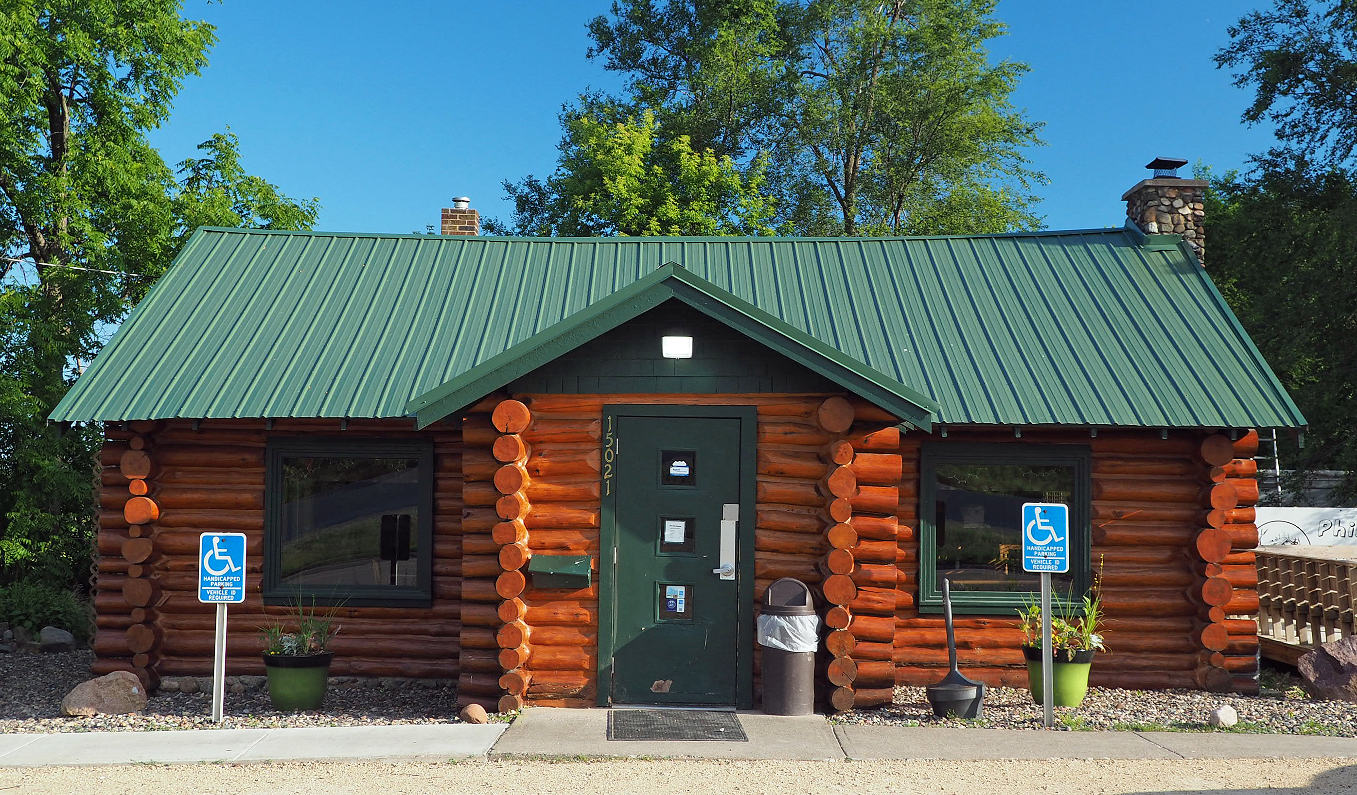 The Log Cabin roadhouse (now Phil's Tara Hideaway), 15021 60th St N, Oak Park Heights, Minnesota, USA. Built in a secluded but road-accessible spot on the outskirts of Stillwater in 1932, likely a venue for drinking and gambling during Prohibition. Viewed from the north.